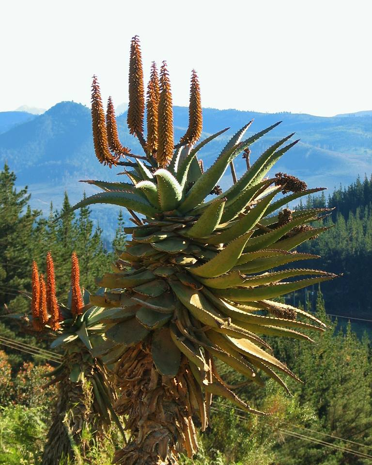 Aloe ferox Mill. - Buffelsnek Forestry Station, Cape Province, South Africa